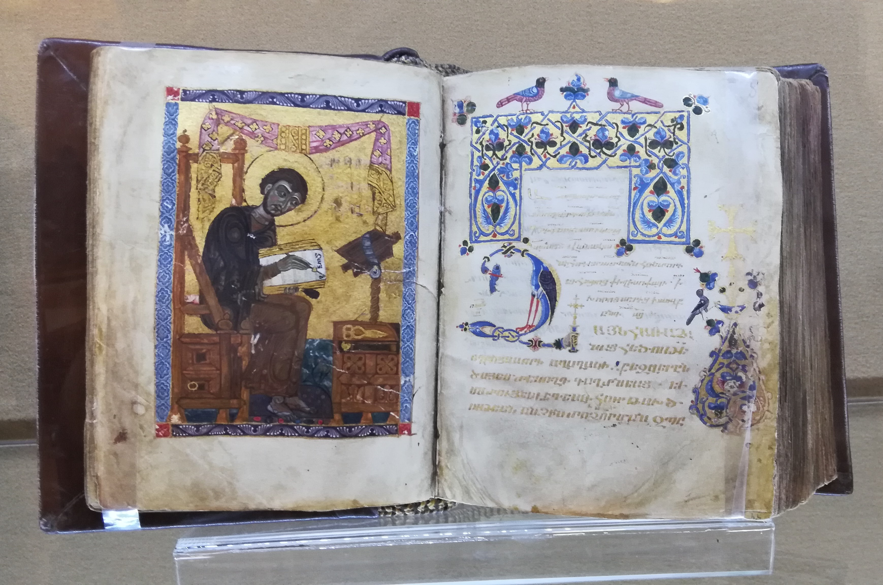 A 1173 manuscript of Gregory of Narek's "Book of Lamentations" at the Matenadaran